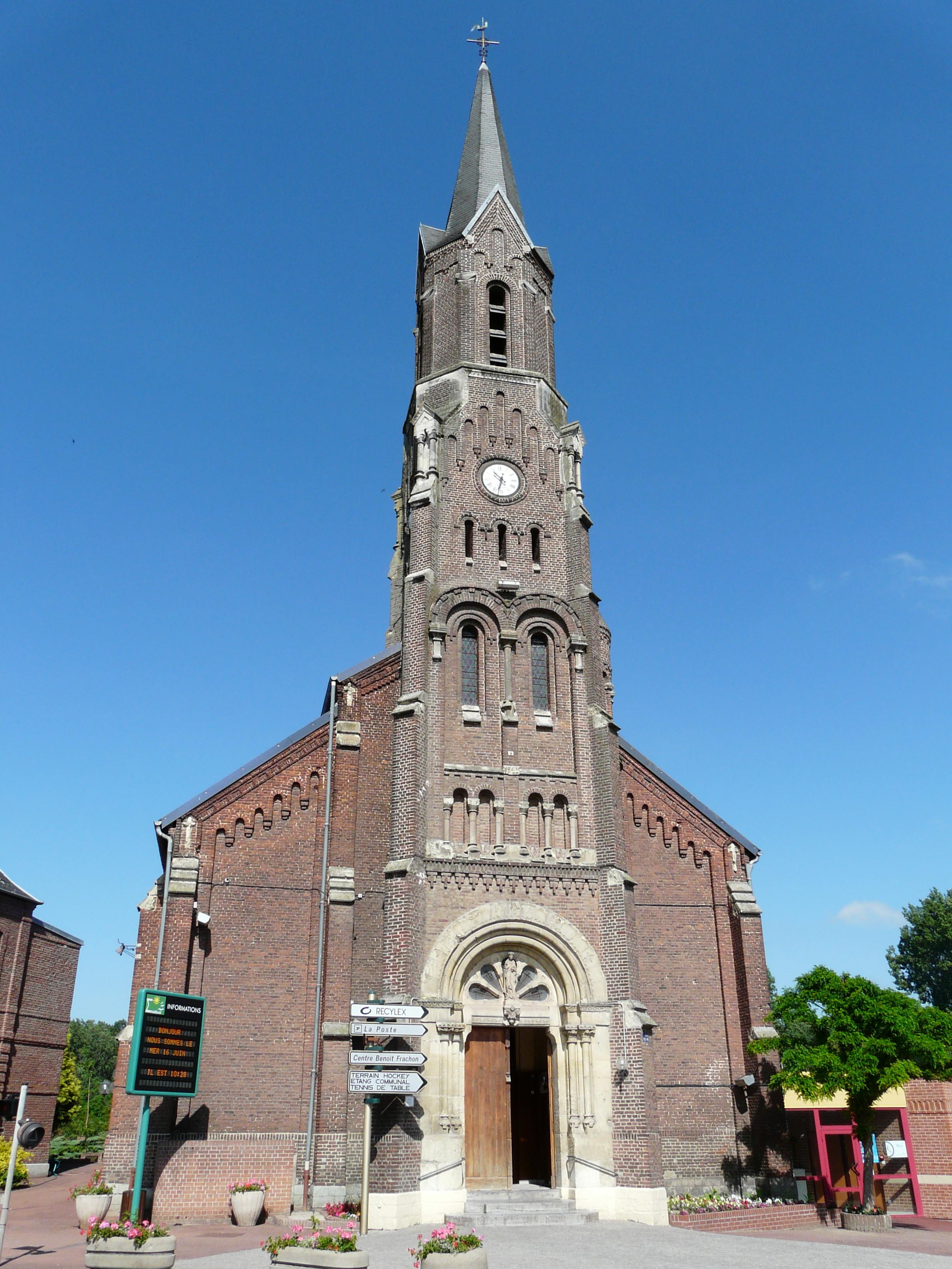 The church in Escaudœuvres